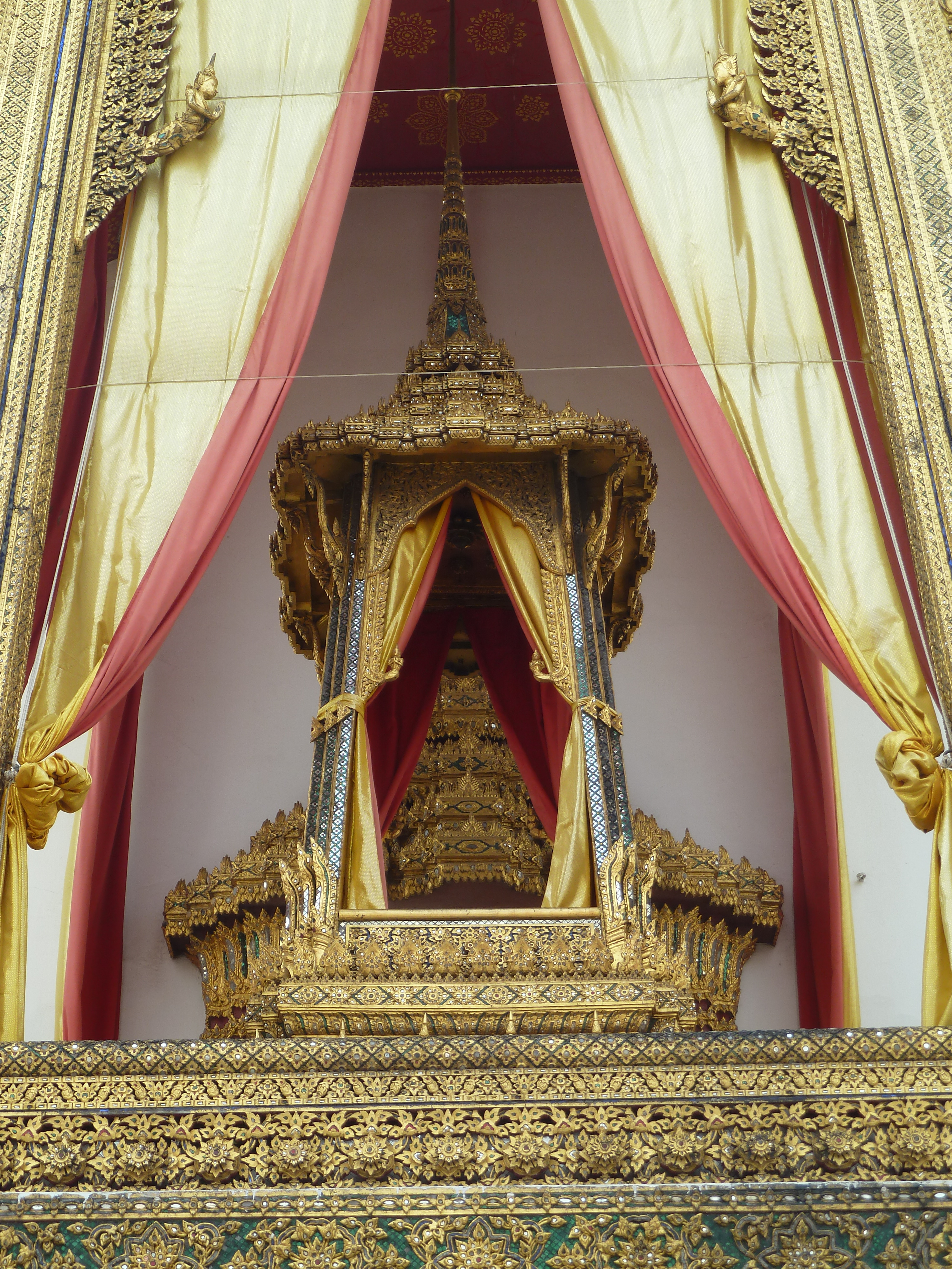 Phra Thinang Dusit Maha Prasat, the Grand Palace, Bangkok, Thailand